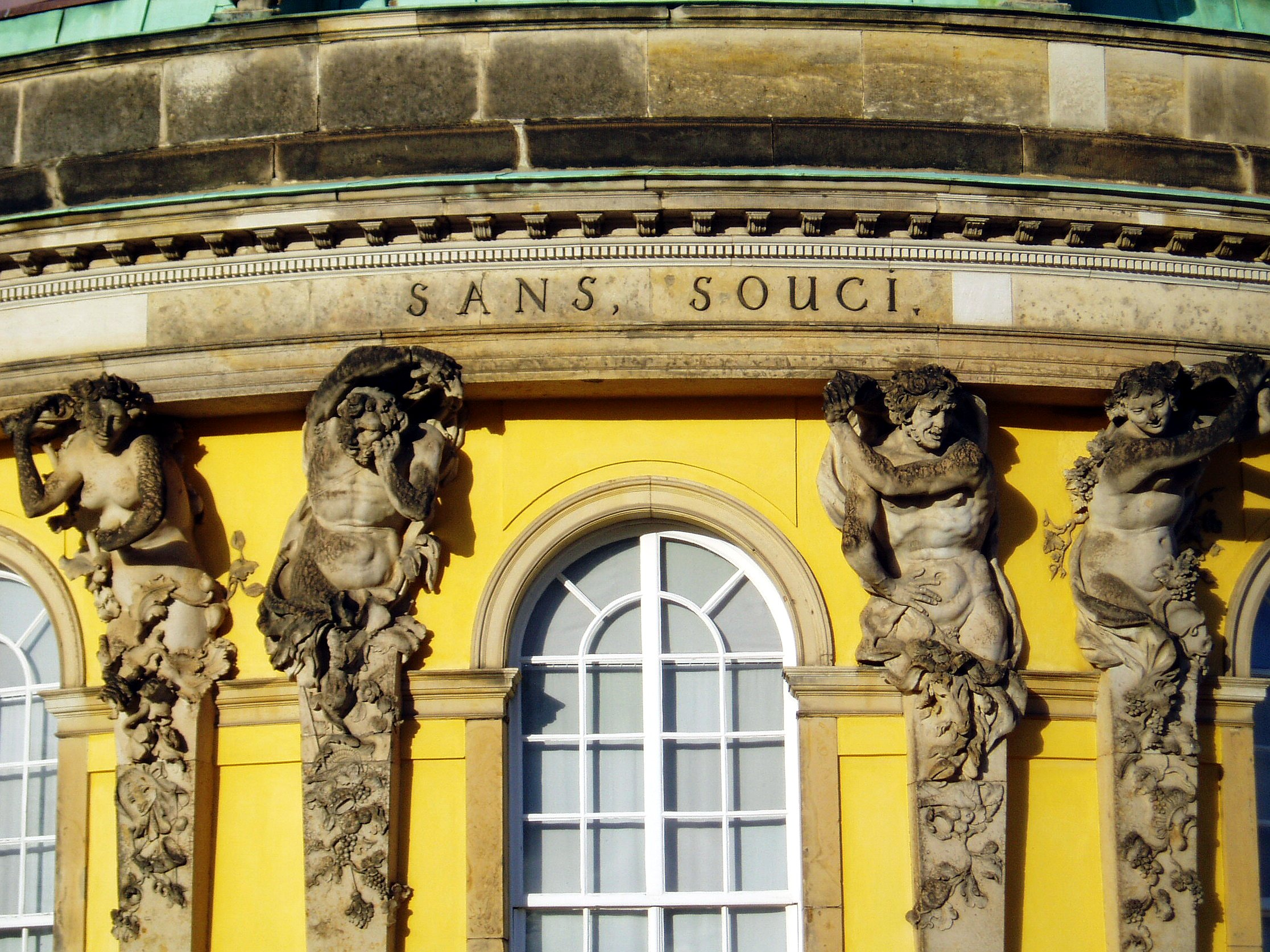 Bronze letters "SANS SOUCI" at Sanssouci, Potsdam, Germany